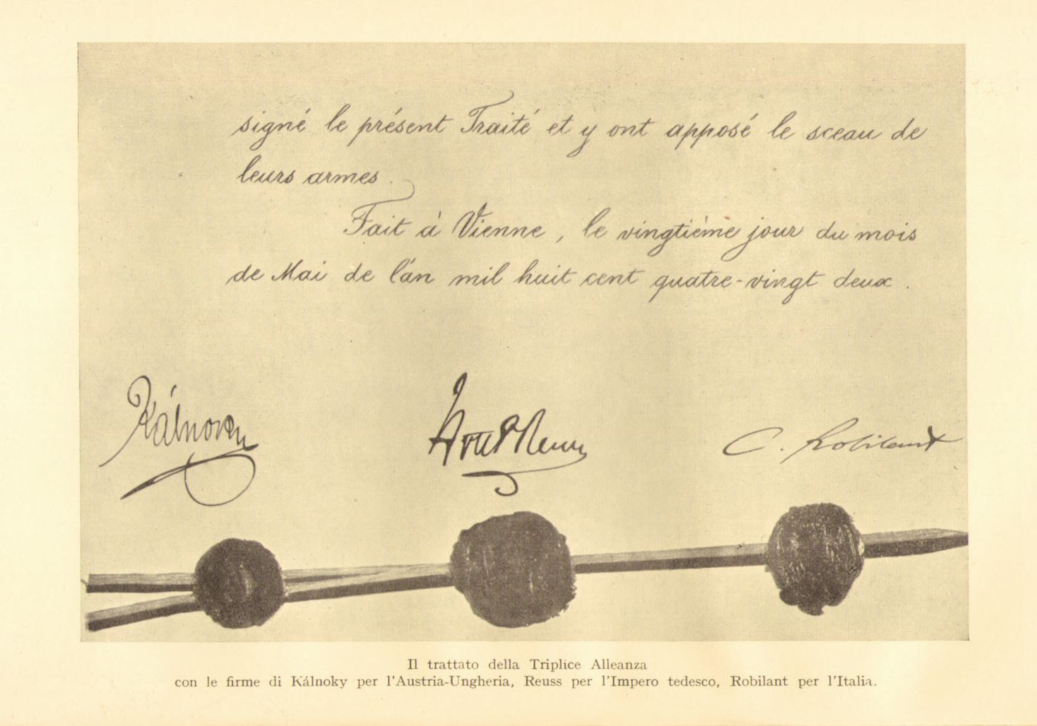 Black and white photo of the signatures to the treaty of the Triple Alliance (1882), L-R: Gustav Kálnoky (Austria-Hungary), Heinrich von Reuss (Germany) and Carlo di Robilant (Italy).